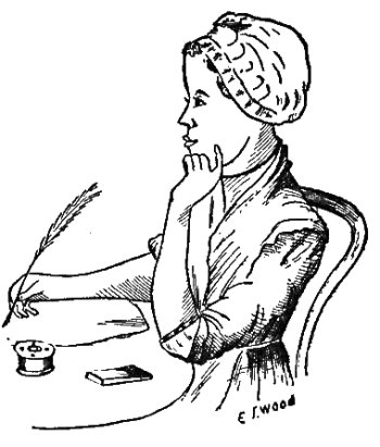 White Side of a Black Subject